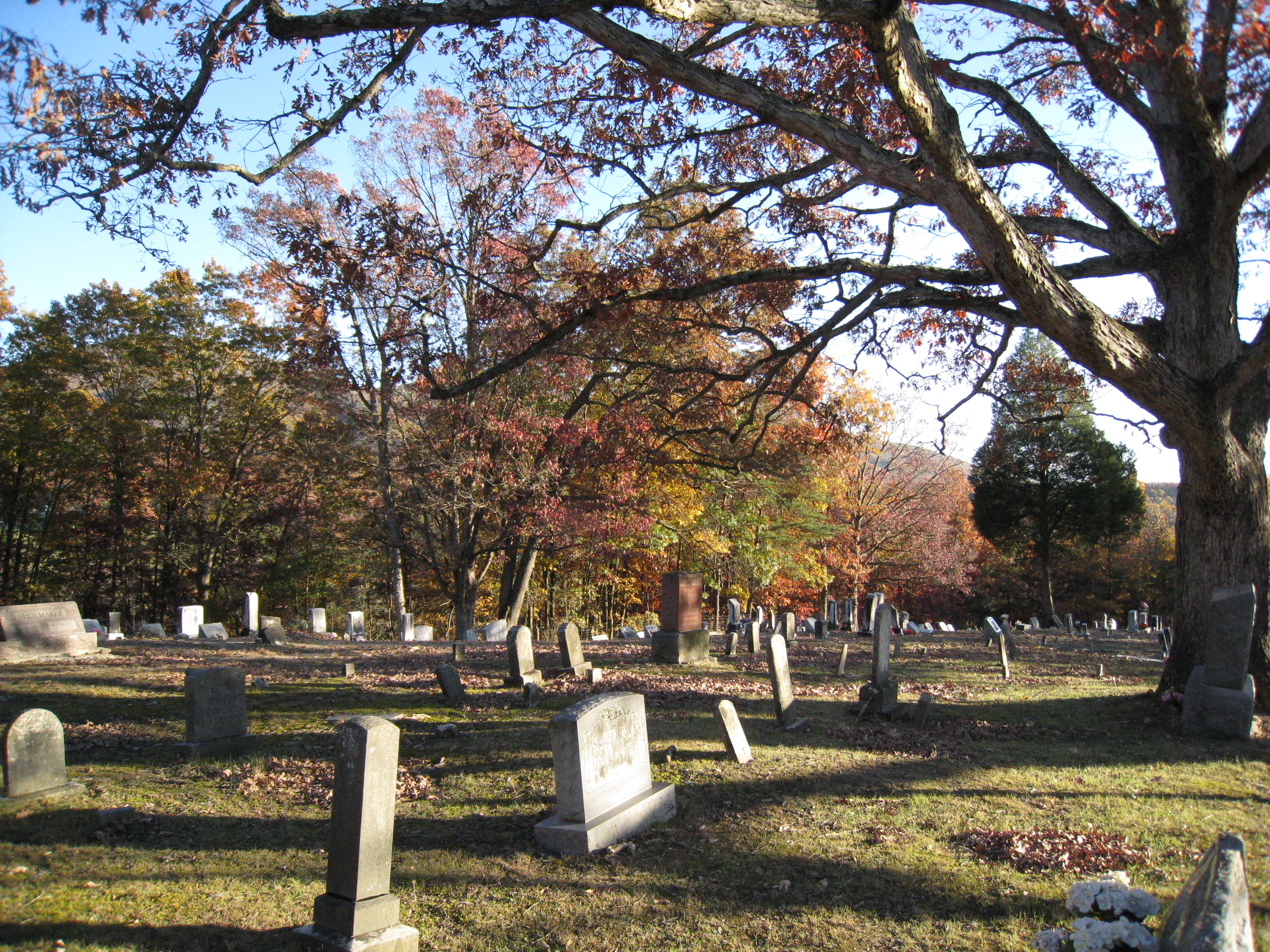 Old Pine Church off Old Pine Church Road (County Route 220/15) south of Purgitsville, West Virginia, United States.